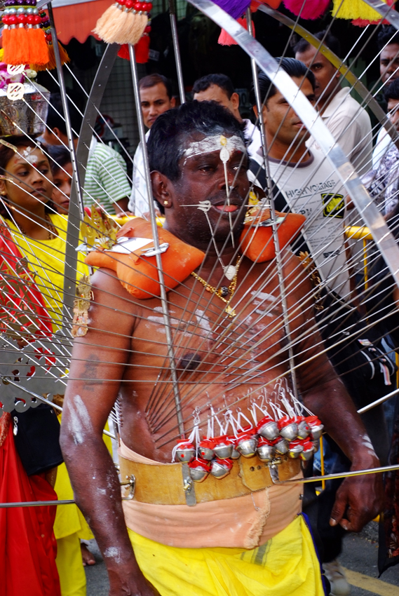 There are many Indian festivals that celebrate the rice harvest, the stars and light. Among these, Thaipusam is by far the most spectacular. These devotees have their tongues and cheeks skewered with long silver needles and metal hooks pierced to their chest and backs. The most extreme form of devotion is the carrying of the spectacular Kavadi for the deity.